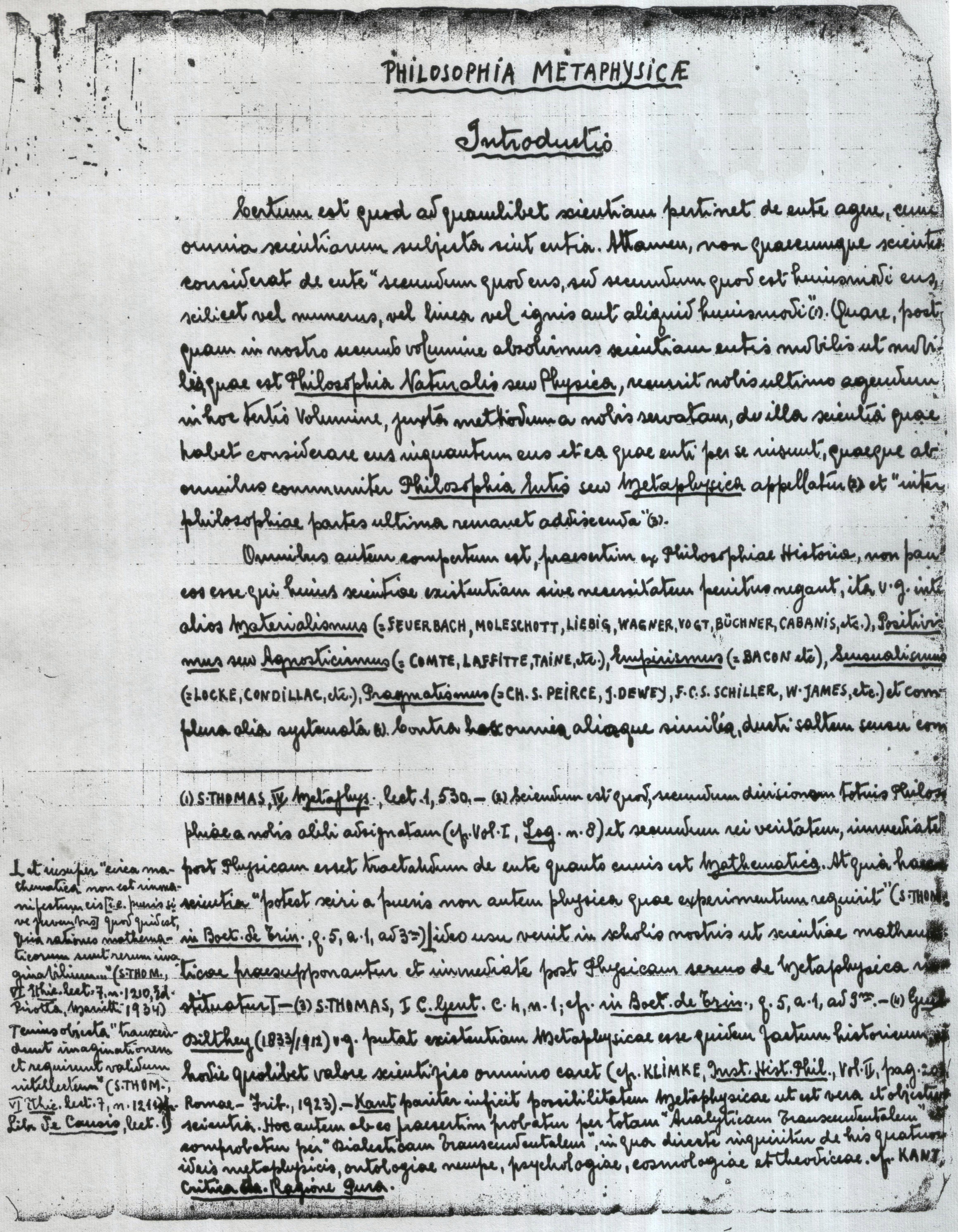 A manuscript composed by Angelo Pirotta (1935/40)